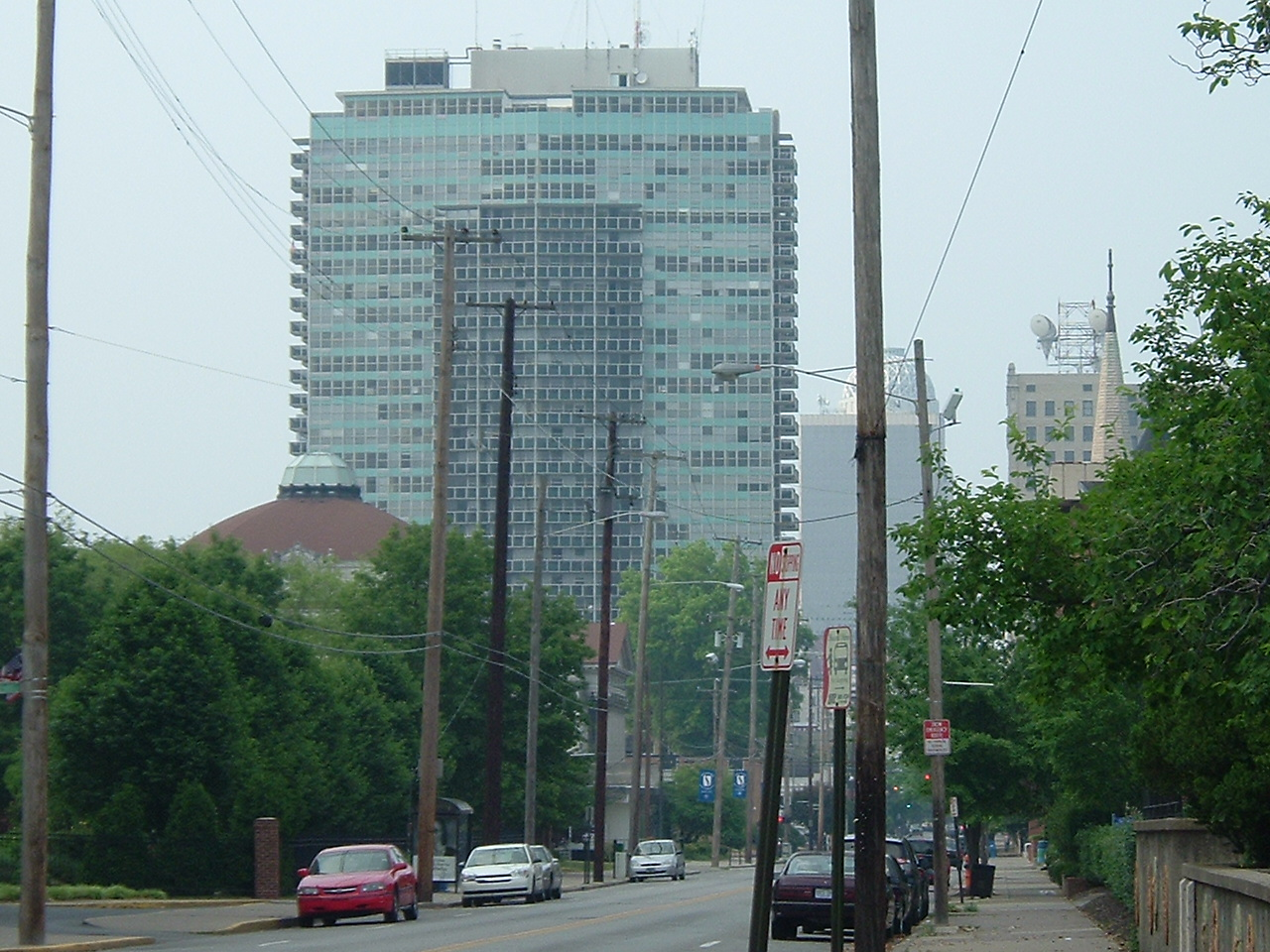 Taken by uploader, all rights released